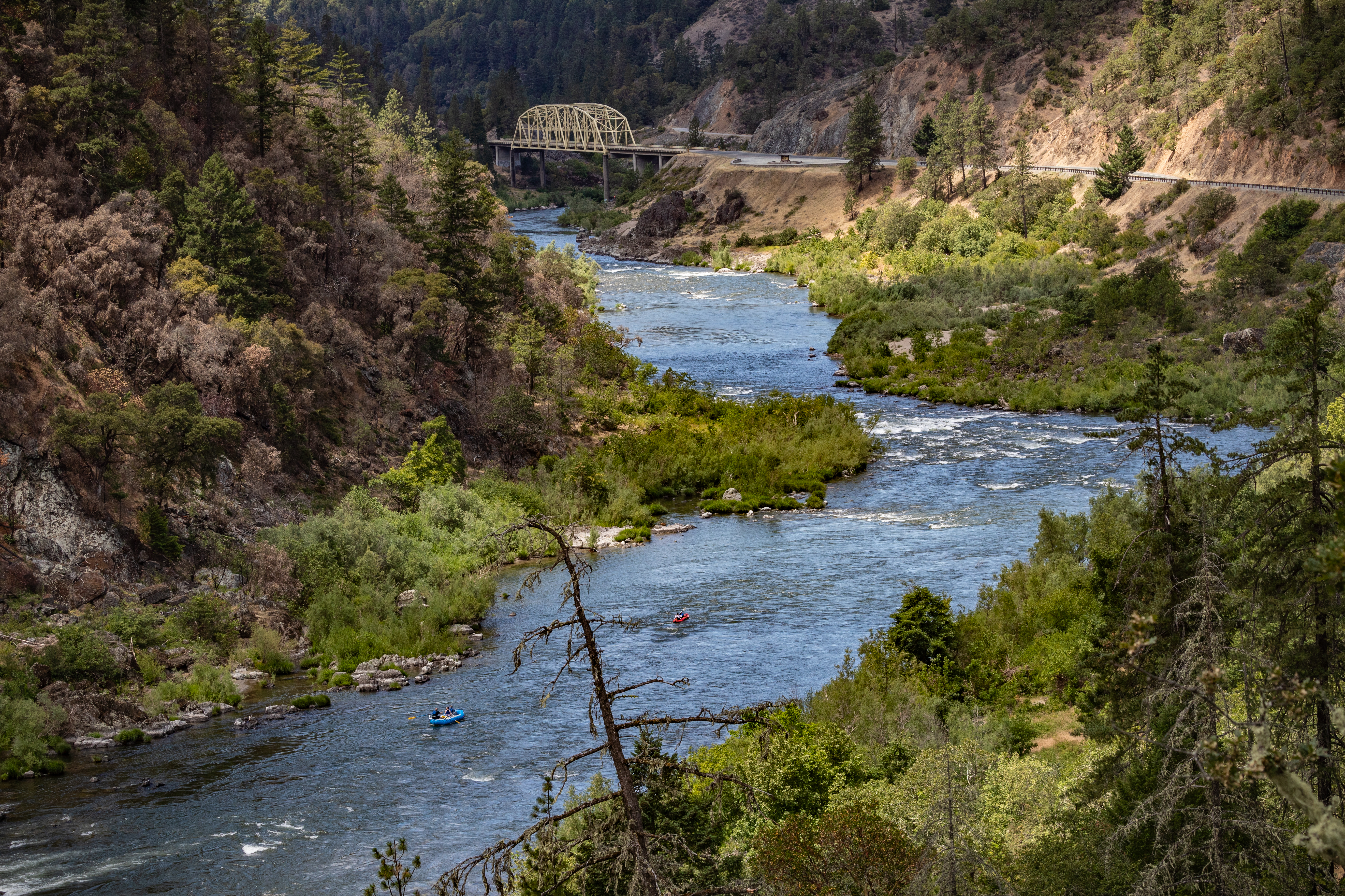 The Wild and Scenic Rogue River from Hellgate Canyon, July 1, 2019, by Greg Shine, BLM. The Rogue River is located in southwestern Oregon and flows 215 miles from Crater Lake to the Pacific Ocean. The 84 mile, Congressionally-designated "National Wild and Scenic" portion of the Rogue begins 7 miles west of Grants Pass and ends 11 miles east of Gold Beach. The Rogue was one of the original eight rivers included in the Wild and Scenic Rivers Act of 1968. The Rogue National Wild and Scenic River is surrounded by forested mountains and rugged boulder and rock-lined banks. Steelhead and salmon fishing, challenging whitewater, and extraordinary wildlife viewing opportunities have made the Rogue a national treasure. Black bear, river otter, black-tail deer, bald eagles, osprey, Chinook salmon, great blue heron, water ouzel, and Canada geese are common wildlife seen along the Rogue River. Popular activities include: whitewater rafting, fishing, jet boat tours, scenic driving, hiking, picnicking, and sunbathing. The Smullin Visitor Center is located at the Rand National Historic Site, on the river near the town of Galice, approximately 20 miles from I-5 on the Merlin-Galice Road. Visitor Center Address: 14335 Galice Road Merlin, Oregon 97532 541-479-3735